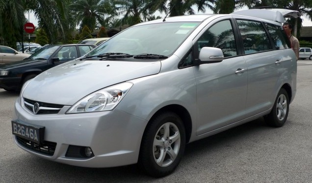 A photo of the Proton Exora H-Line Automatic at the official media preview.